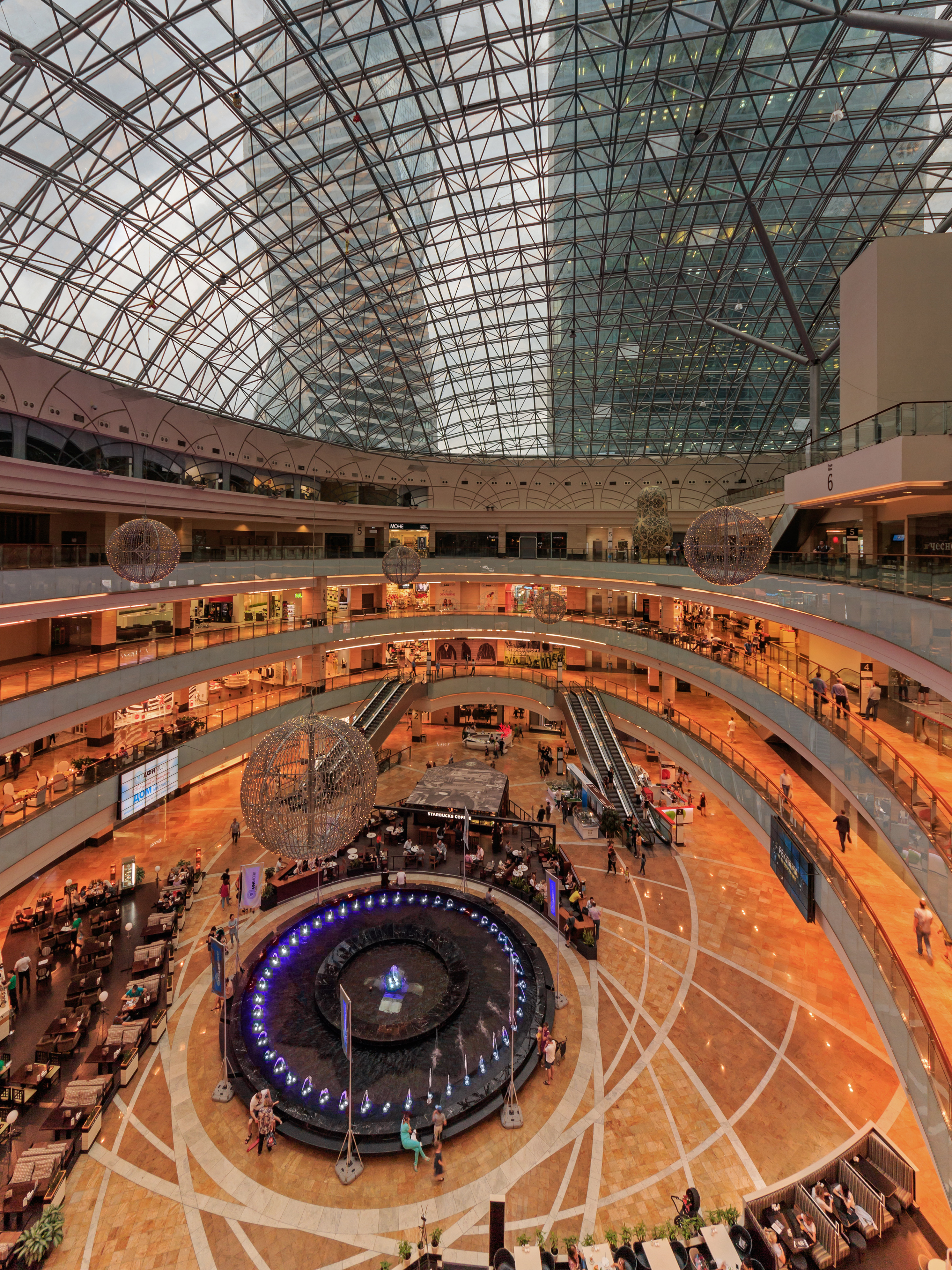 Interior view of the central atrium of AfiMall Moscow-City. Moscow, Russia.